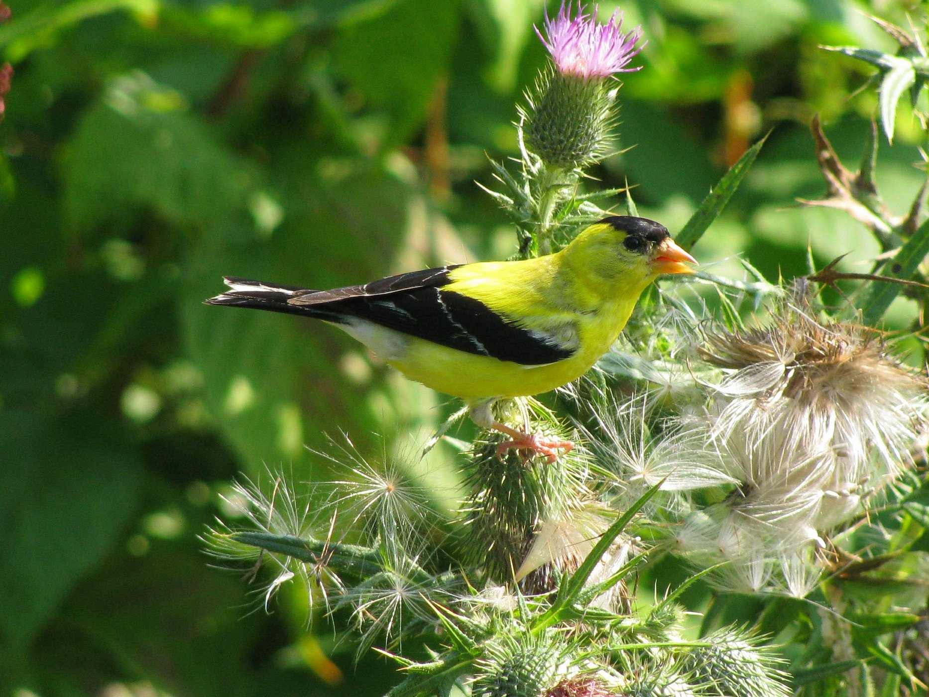 American Goldfinch (also known as the Eastern Goldfinch and Wild Canary). A male eating thistle seeds, in Pemaquid, Maine, USA.